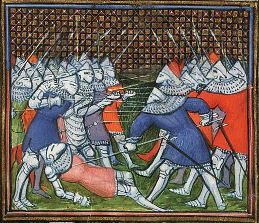 Jean Froissart, Chroniques (Vol. I): The death of Sir John Chandos at Lussac Place of origin, date: Paris, Virgil Master (illuminator); c. 1410 Material: Vellum, ff. 382, 385x288 (243x187) mm, 42 lines, littera cursiva, Binding: 18th-century brown leather; gilt; with coat of arms of Stadholder William V Decoration: 1 two-column miniature (170x180 mm); 29 column miniatures (115/65x95/80 mm); 1 historiated initial (45x50 mm); decorated initials with border decoration (ff. 1r, 24r, 36r, 62r, 74v, etc.) Provenance: Louis de Luxemburg, conn‚ table de France (d. 1475; signature, erased); by descent to his granddaughter Françoise de Luxembourg and her husband Philip of Cleves (d. 1528; coat of arms with label, over erasure; signature); purchased in 1531 from Philip’s estate by HenriIII, Count of Nassau (d. 1538); by descent to the Princes of Orange-Nassau, the later Stadholders, at The Hague; carried off in 1795 to Paris by the French and restituted to the Koninklijke Bibliotheek in 1816